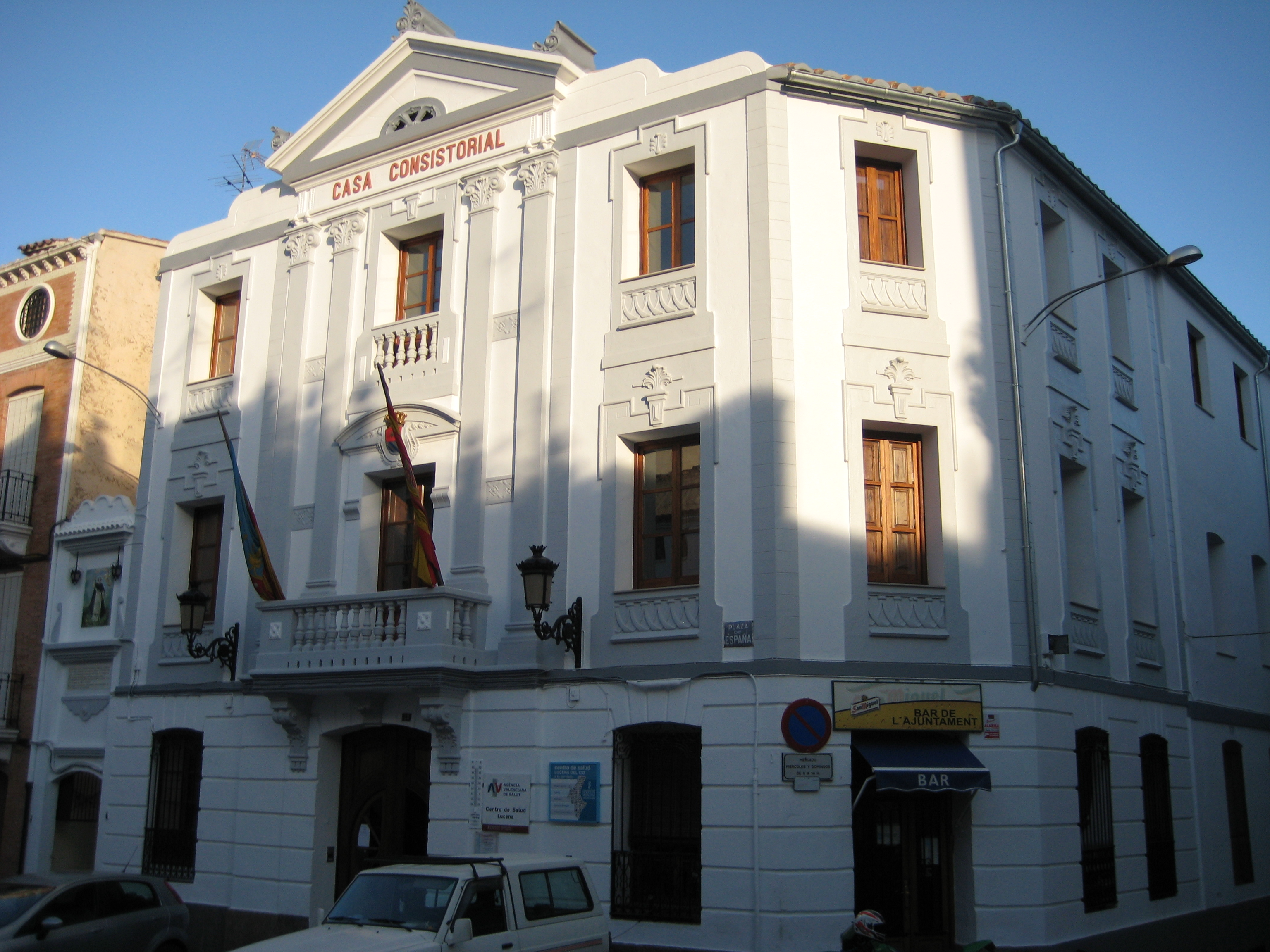 Town hall of Lucena del Cid (Spain)